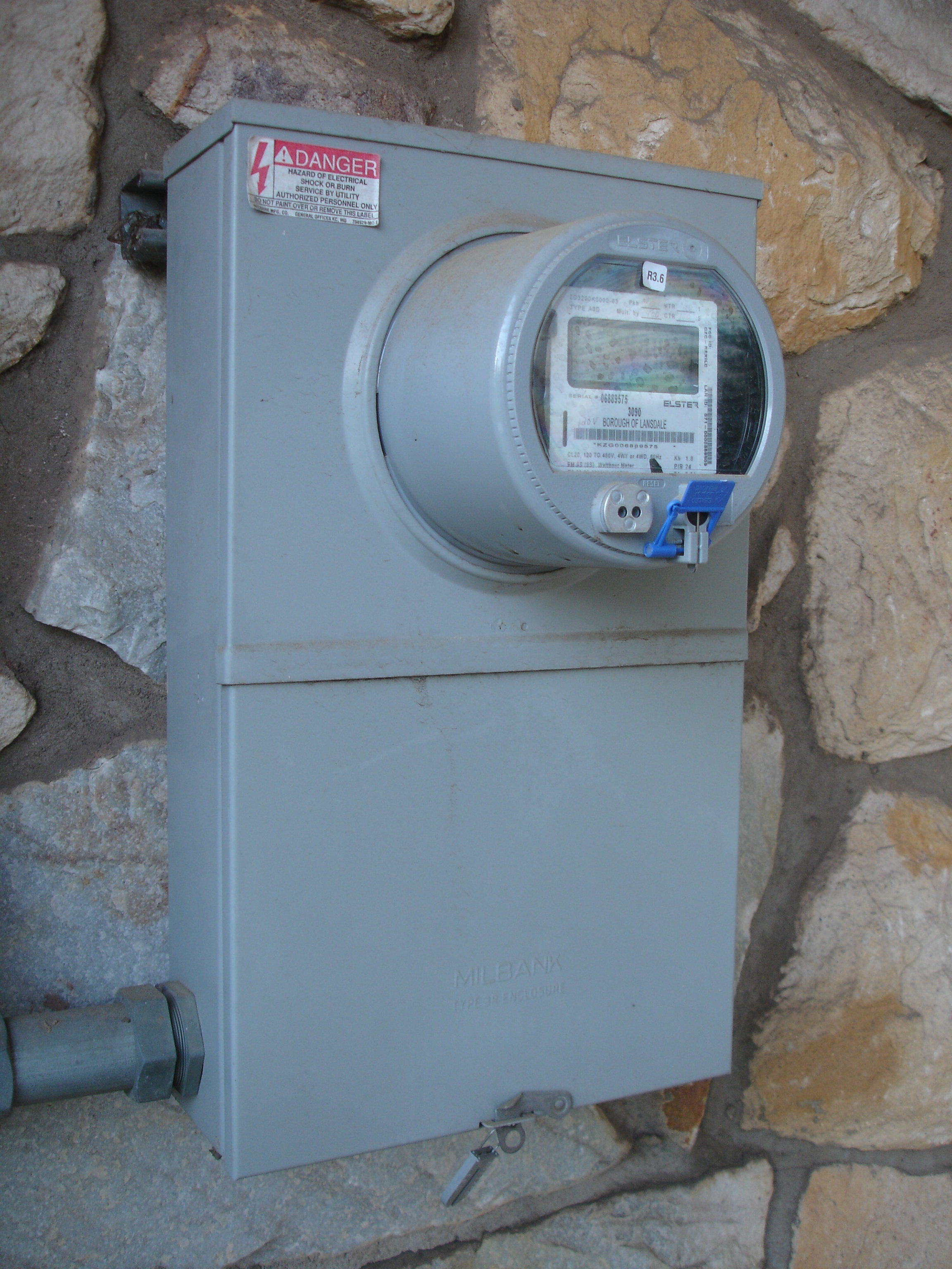 Elster A3 ALPHA type A30 single-phase kWh smart meter / collector. It collects data from neighboring REX smart meters using a 900MHz Frequency Hopping Spread Spectrum (FHSS)[1] mesh network and 128-bit AES encryption branded as "EnergyAxis".